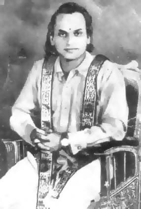 Mayavaram Krishnamurthy Thyagaraja Bhagavathar.